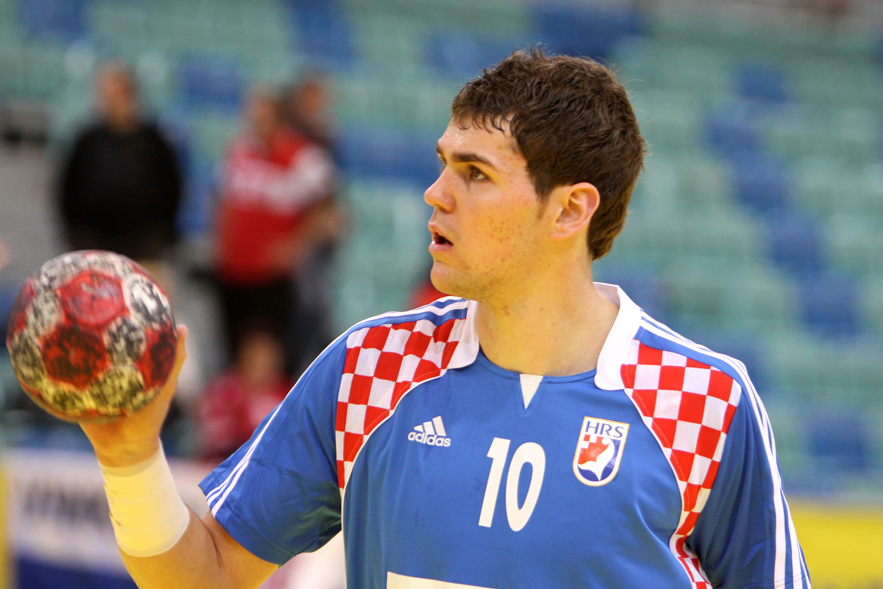 Jakov Gojun (RK Zagreb), Croatia national handball team